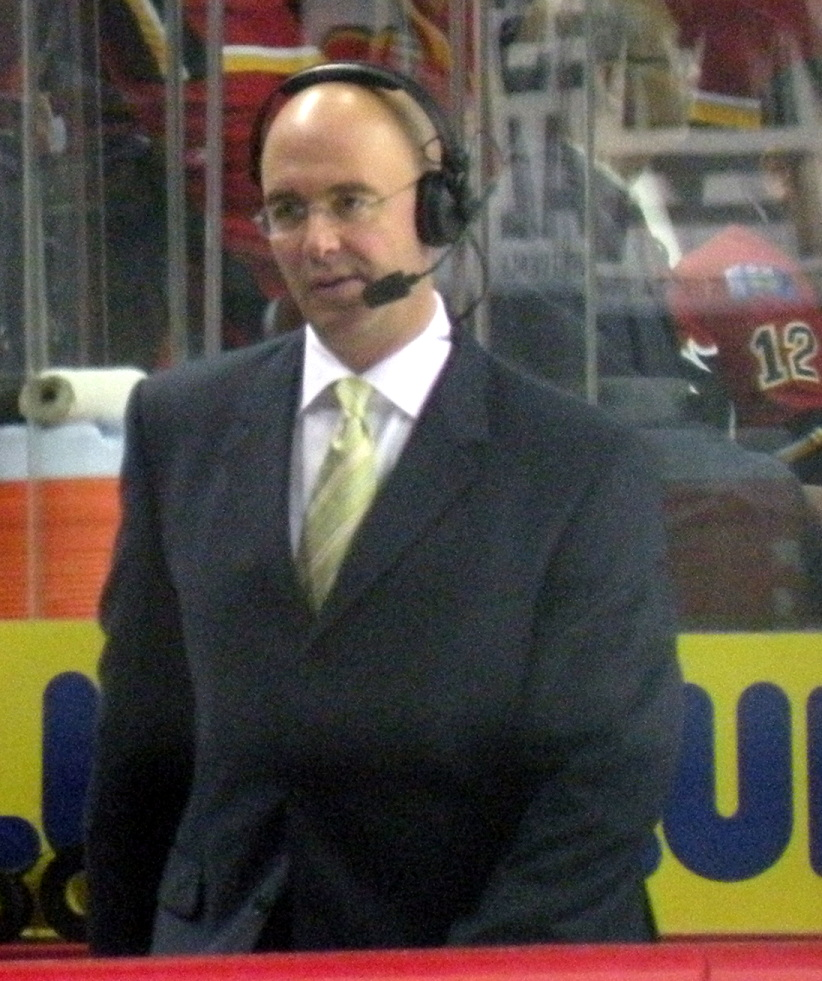 TSN broadcaster, and former National Hockey League coach, Pierre McGuire prior to a playoff game between the Calgary Flames and Chicago Blackhawks, in Calgary.